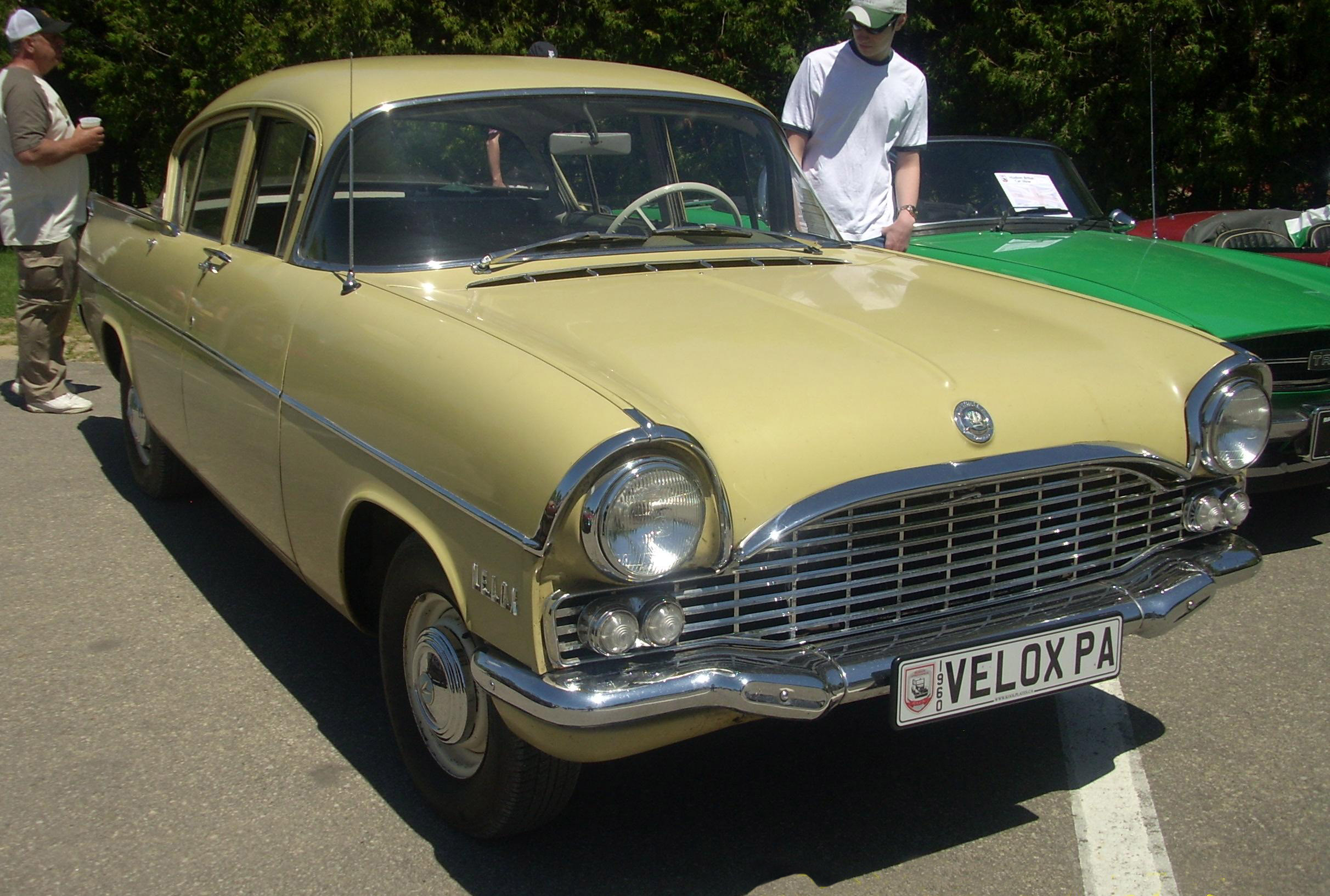 1960-1962 Vauxhall Velox photographed at the 2008 Hudson British Auto Show.